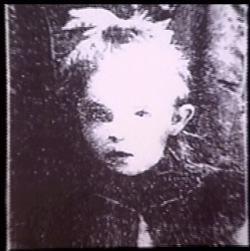 Elsie Paroubek, who was murdered at the age of five in 1911 in Chicago. The picture is most likely to have come from the Chicago Daily News. It was one of many newspaper photos of children collected by artist Henry Darger. According to his autobiography, his copy of Miss Paroubek's photo was in amongst some items that were stolen when his locker at work was broken into, and he was unable to locate the picture in the newspaper archives. The tragic death of Miss Paroubek and the loss of her image inspired him to begin writing his monumental fantasy novel "The Story of the Vivian Girls." Miss Paroubek was a central character in the novel, under the name Anna Aronburg. This jpg comes from a screenshot which I took myself from the film "Henry Darger in the Realms of the Unreal". I have been told by other Wikipedians (see the discussion section for the Henry Darger article) that the photograph is in public domain (it was taken prior to 1923) and can be used for fair use without resorting to asking permission of the Darger estate as administered by Kiyoko Lerner. I want to use this picture on the Henry Darger article because it was the catalyst for his most important writing.